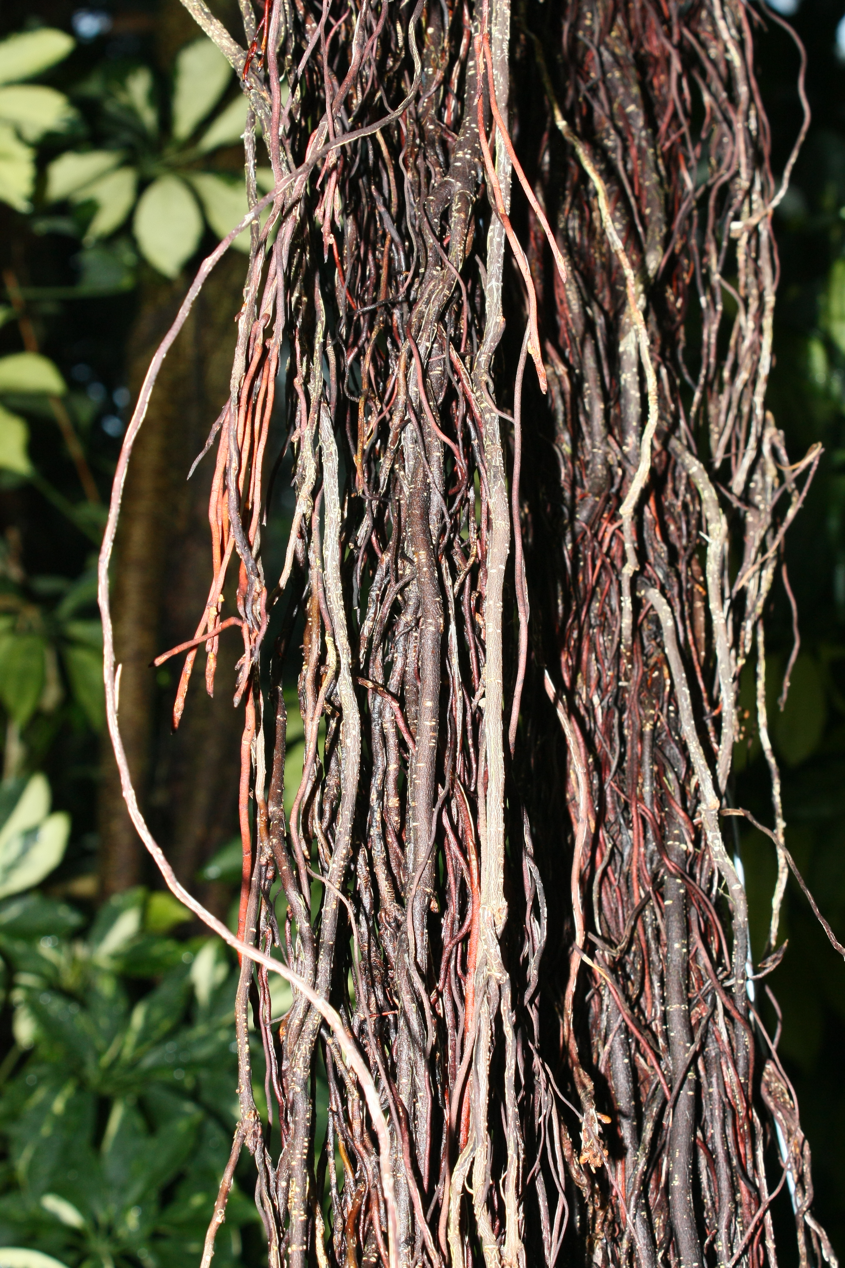 Aerial ficus root. Taken at Krohn Conservatory.